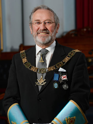 Douglas T. Grey on his installation as the 44th Grand Master of Ireland in Freemasons' Hall, Dublin.